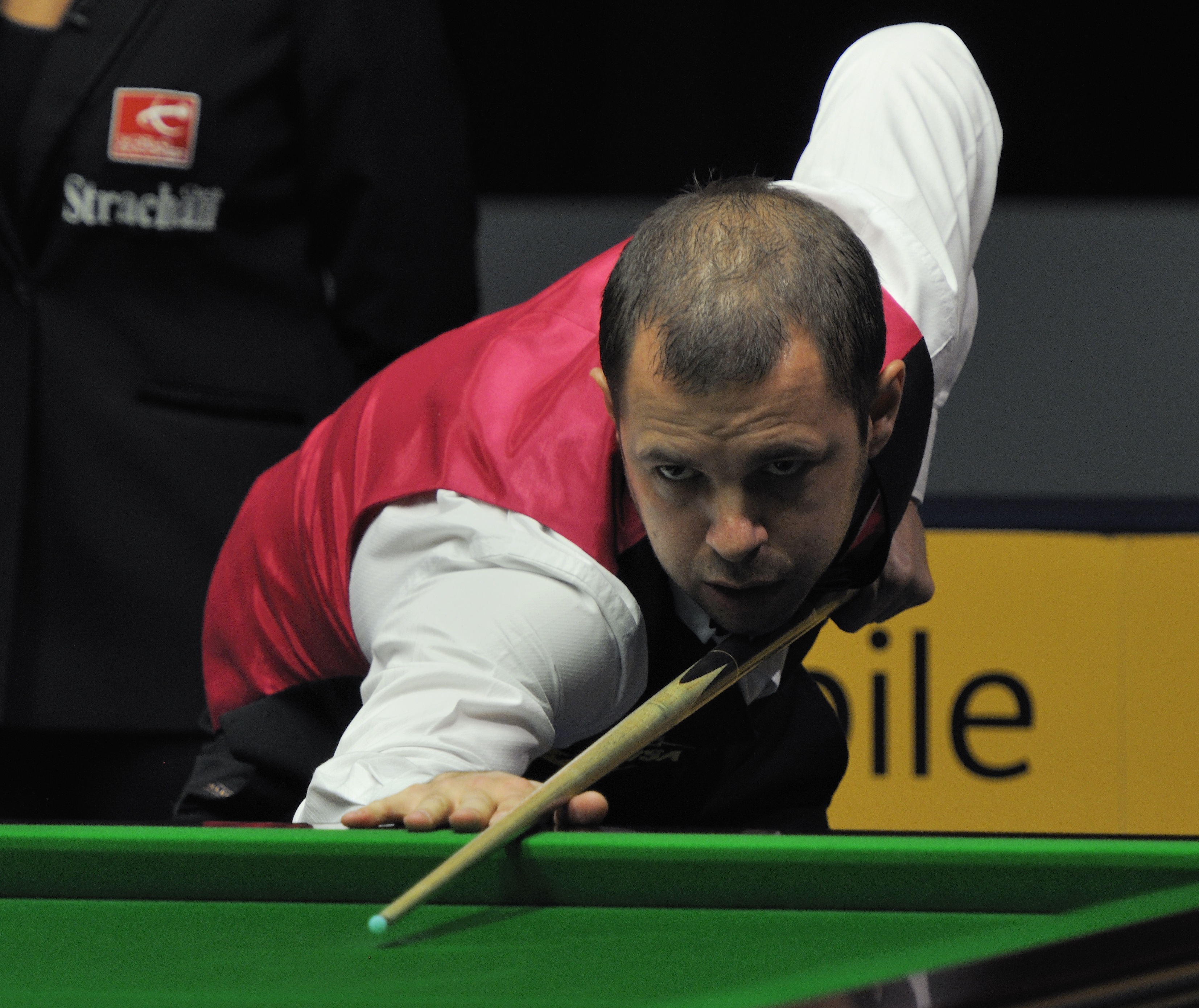 Picture taken in Berlin during the Snooker German Masters in 2013. Barry Hawkins.